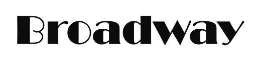 Typeface: Broadway